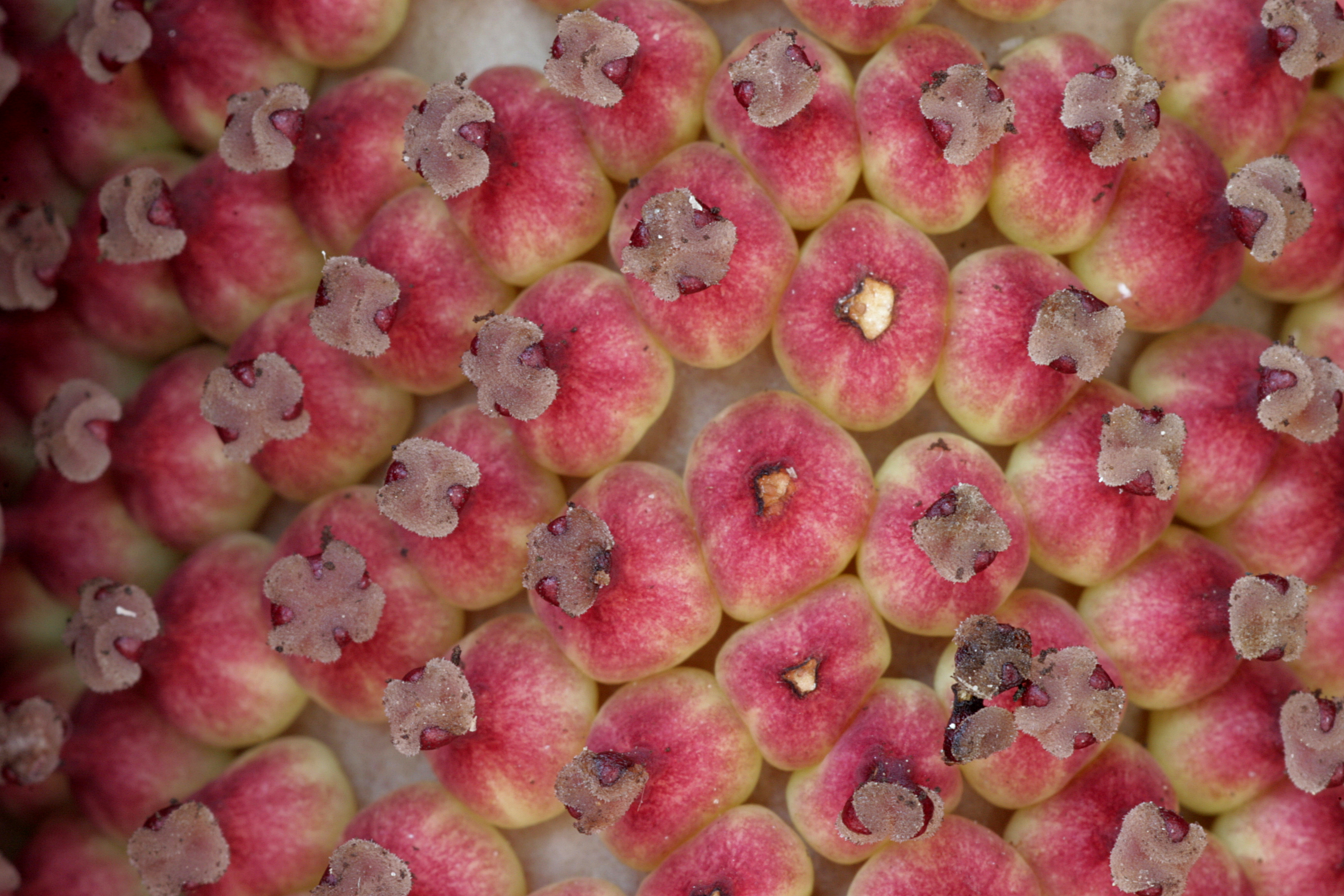 Female Flowers of Amorphophallus konjac, de: Weibliche Blüten von Amorphophallus konjac, Flores femeninas de Amorphophallus konjac